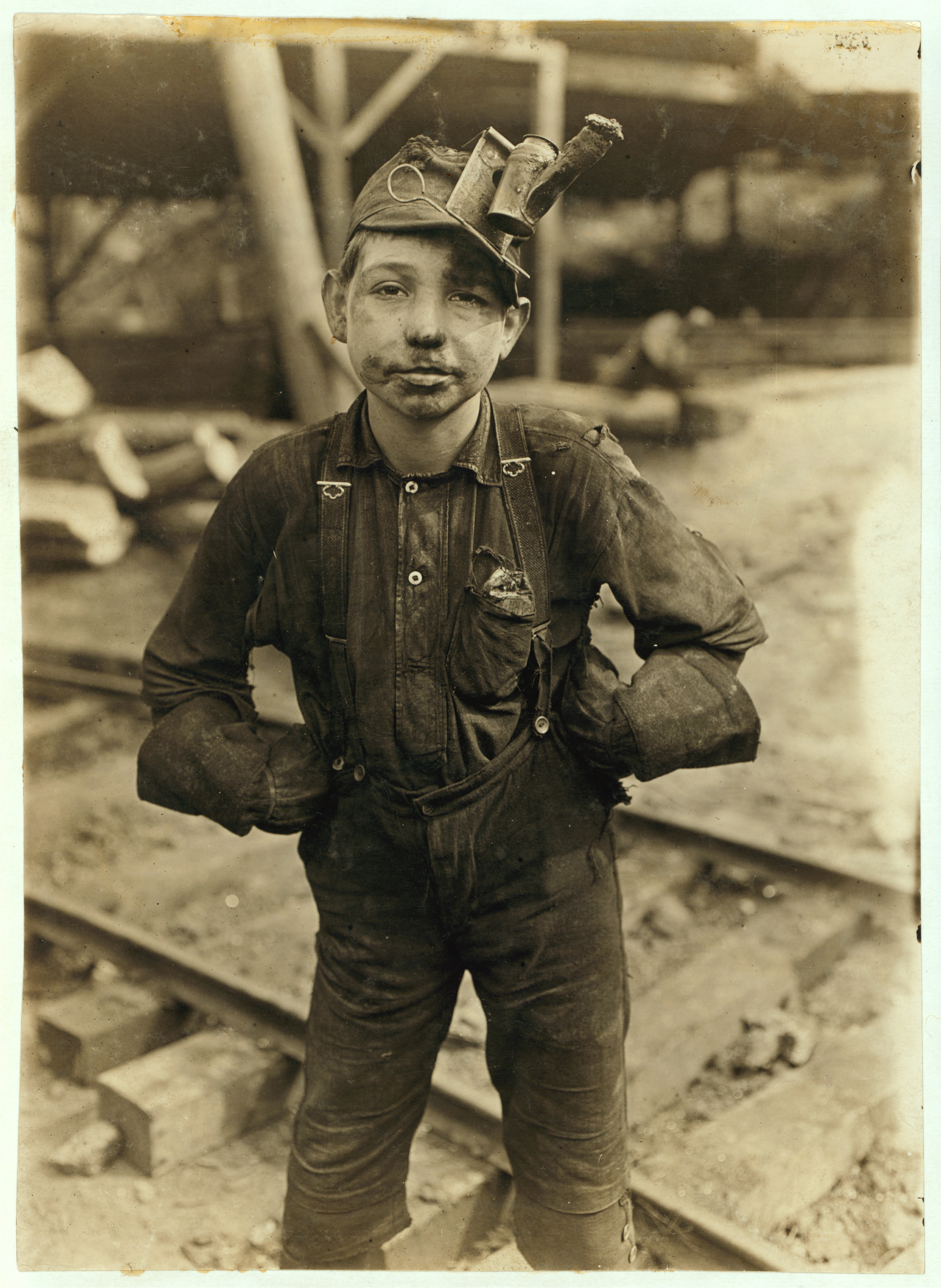 Tipple Boy, (see Photo 150) Turkey Knob Mine, Macdonald, W. Va. Witness E. N. Clopper. Location: MacDonald, West Virginia.